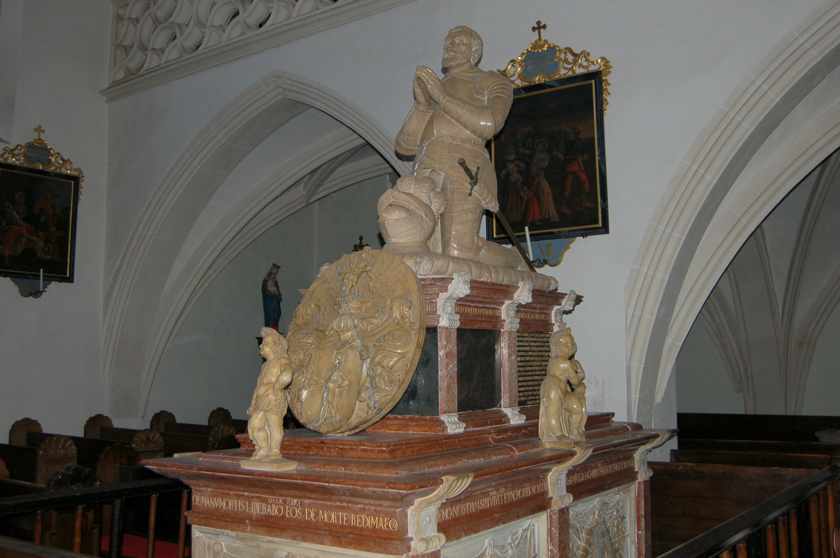 Tomb of Johannes Georg III von Kuefstein in the parish and pilgrimage church Maria Laach am Jauerling, Lower Austria